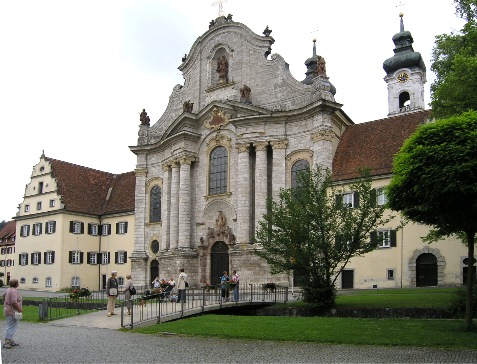 Monastery church of Zwiefalten/Germany